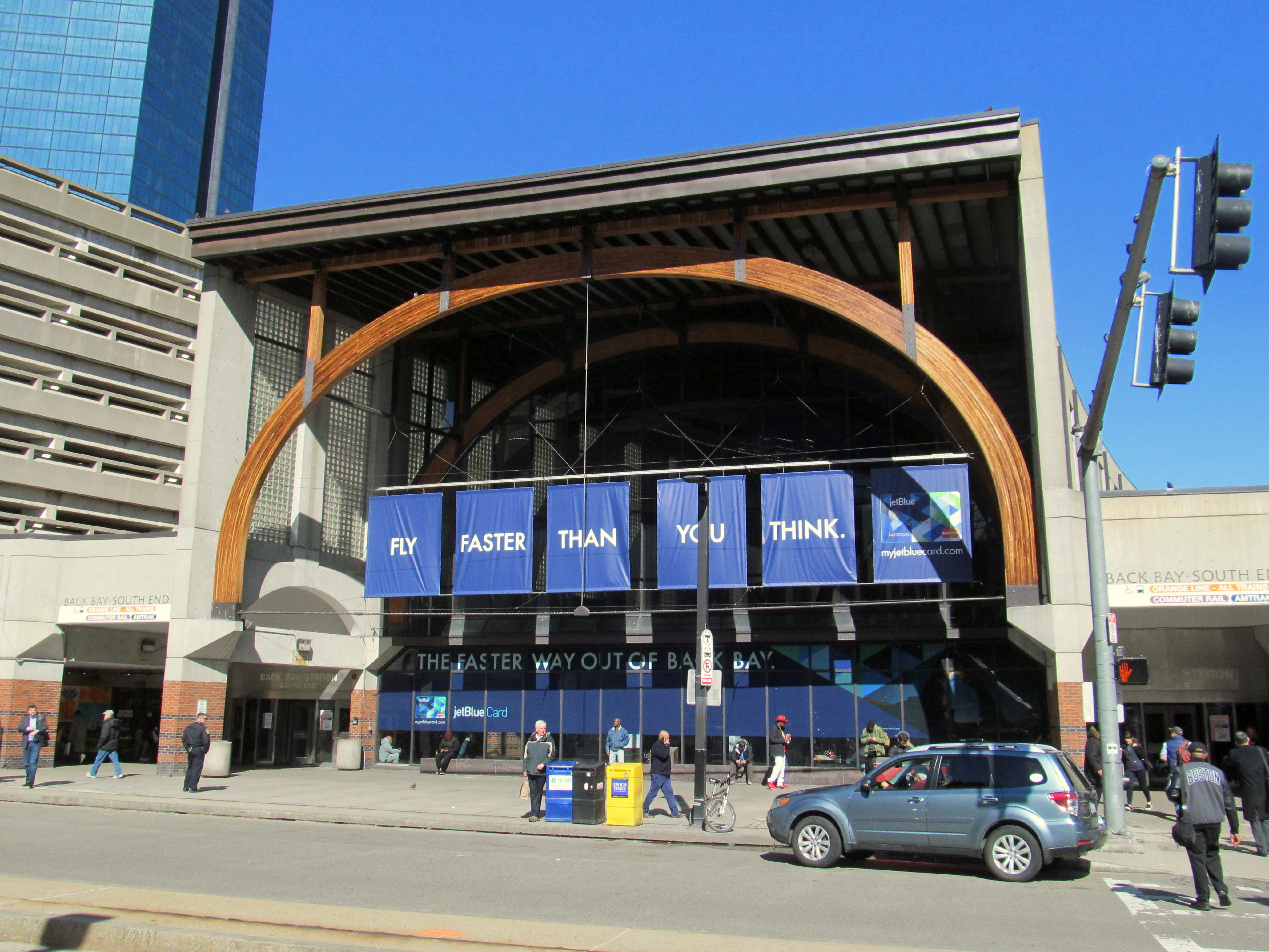 Dartmouth Street facade of Back Bay station in March 2017